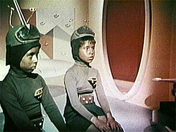 Screenshot from the movie Santa Claus Conquers the Martians which has been released as Public Domain: [2]. Featured are the Martian children characters Bomar (Chris Month, left) and Girmar (Pia Zadora).